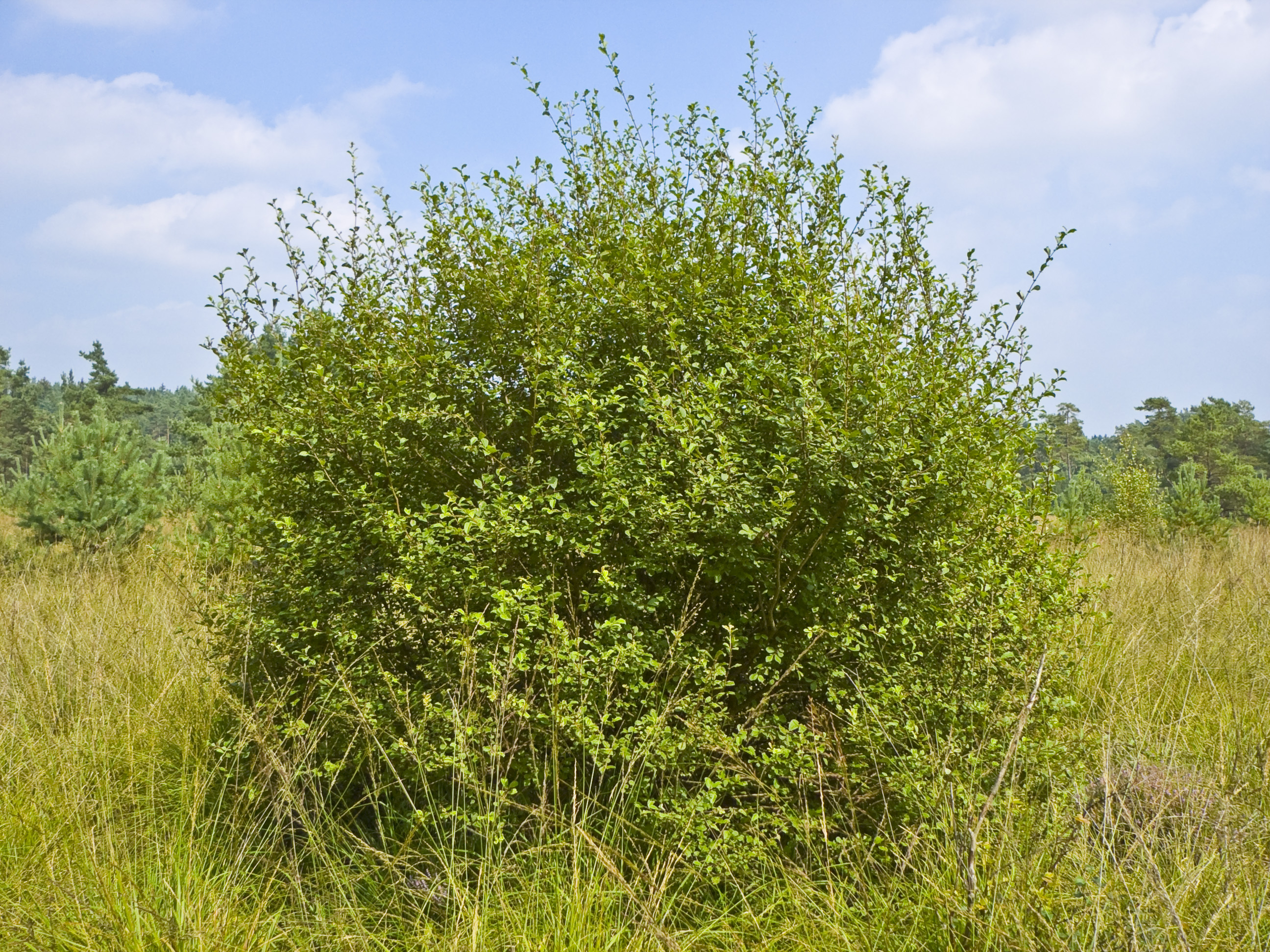 Salix aurita, Location: Franzosenwiesen, Burgwald, Hesse, Germany